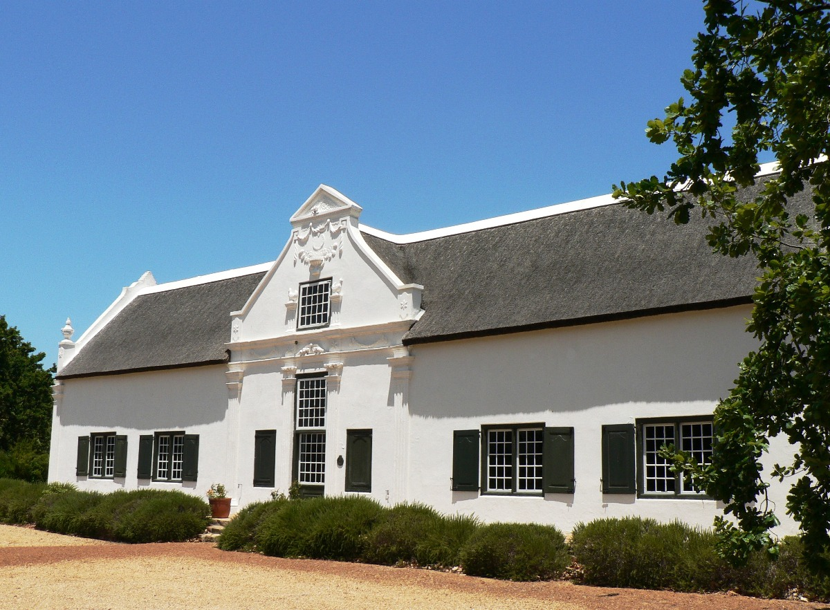 Front facade of homestead. This media shows a South African Protected Site with SAHRA file reference 9/2/069/0003.